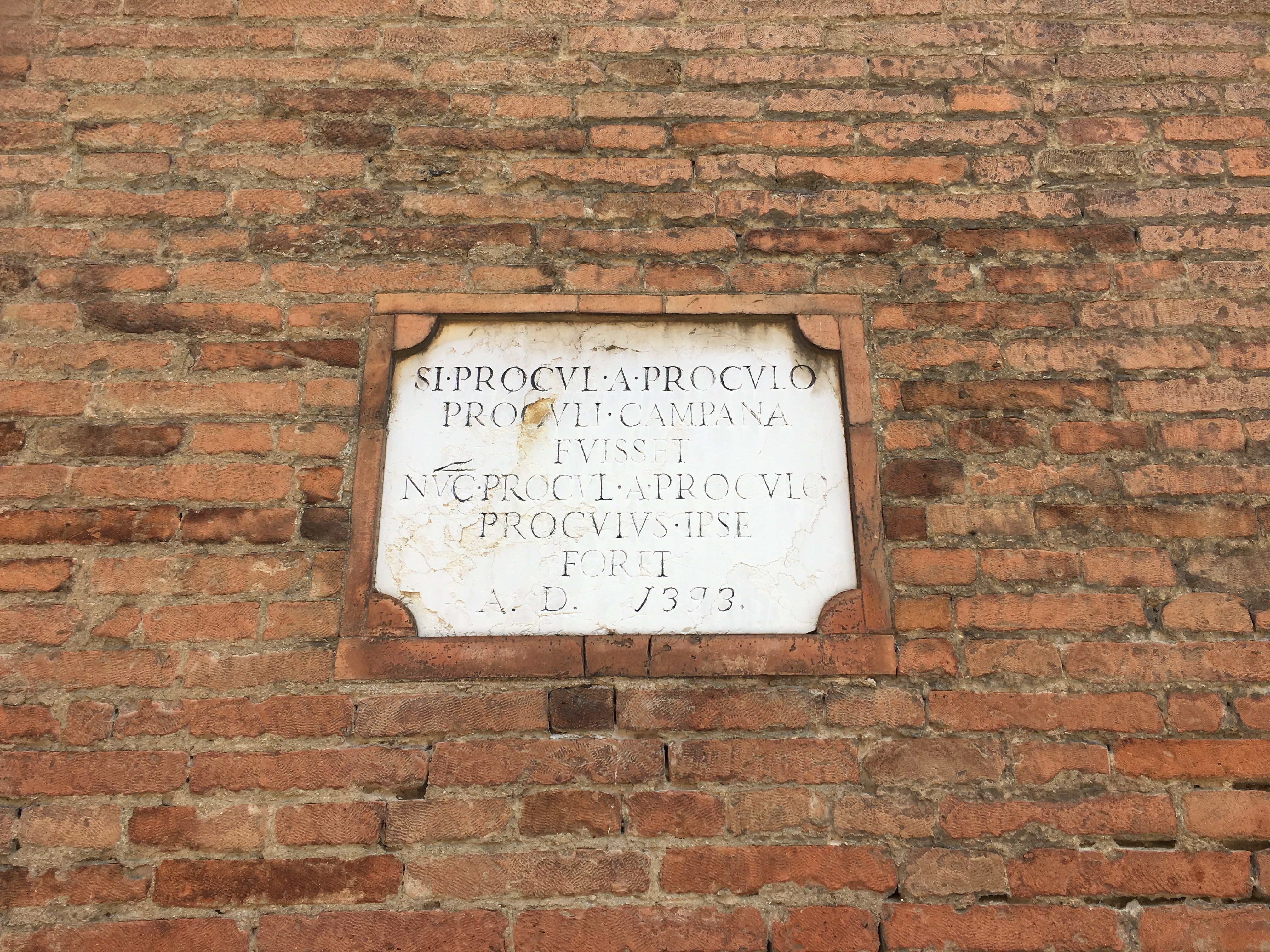 iscrizione san procolo, bologna, italy